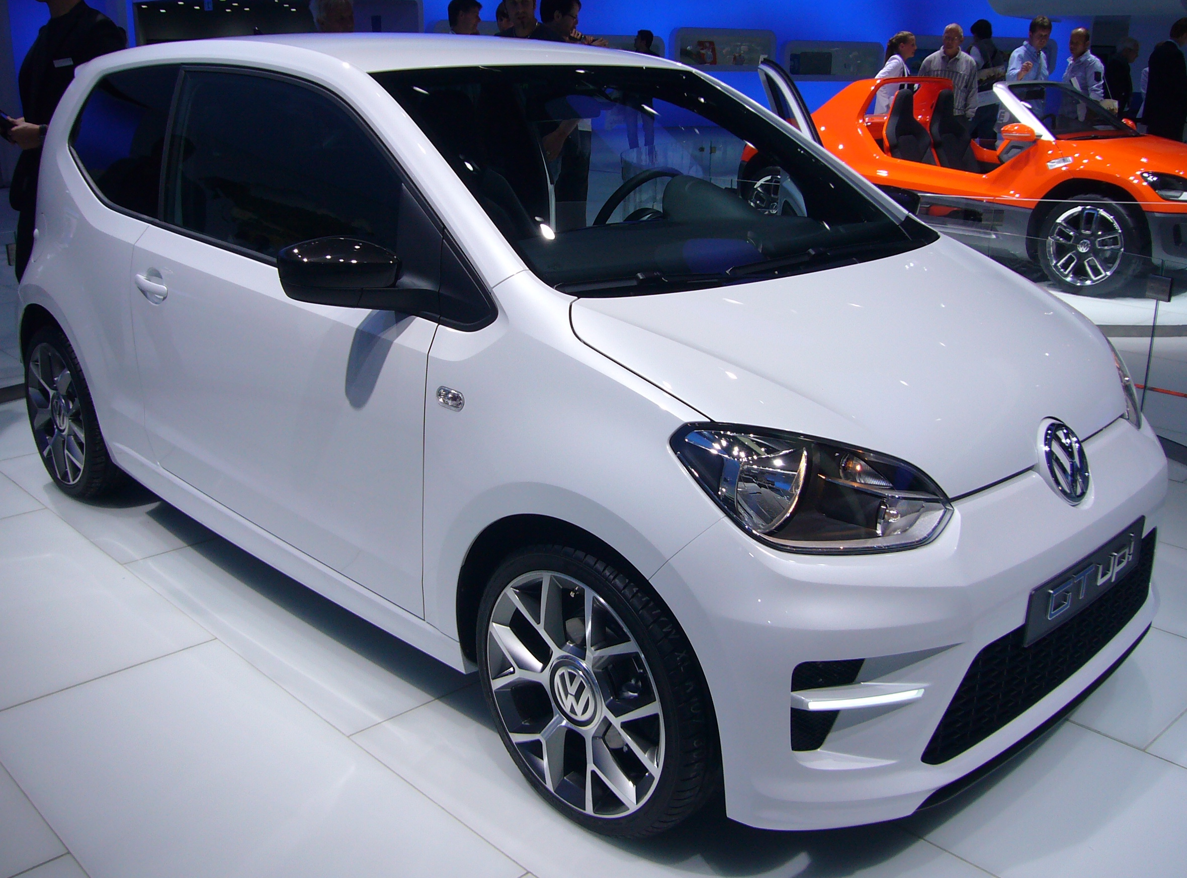 Volkswagen GT up! Concept at IAA Frankfurt 2011